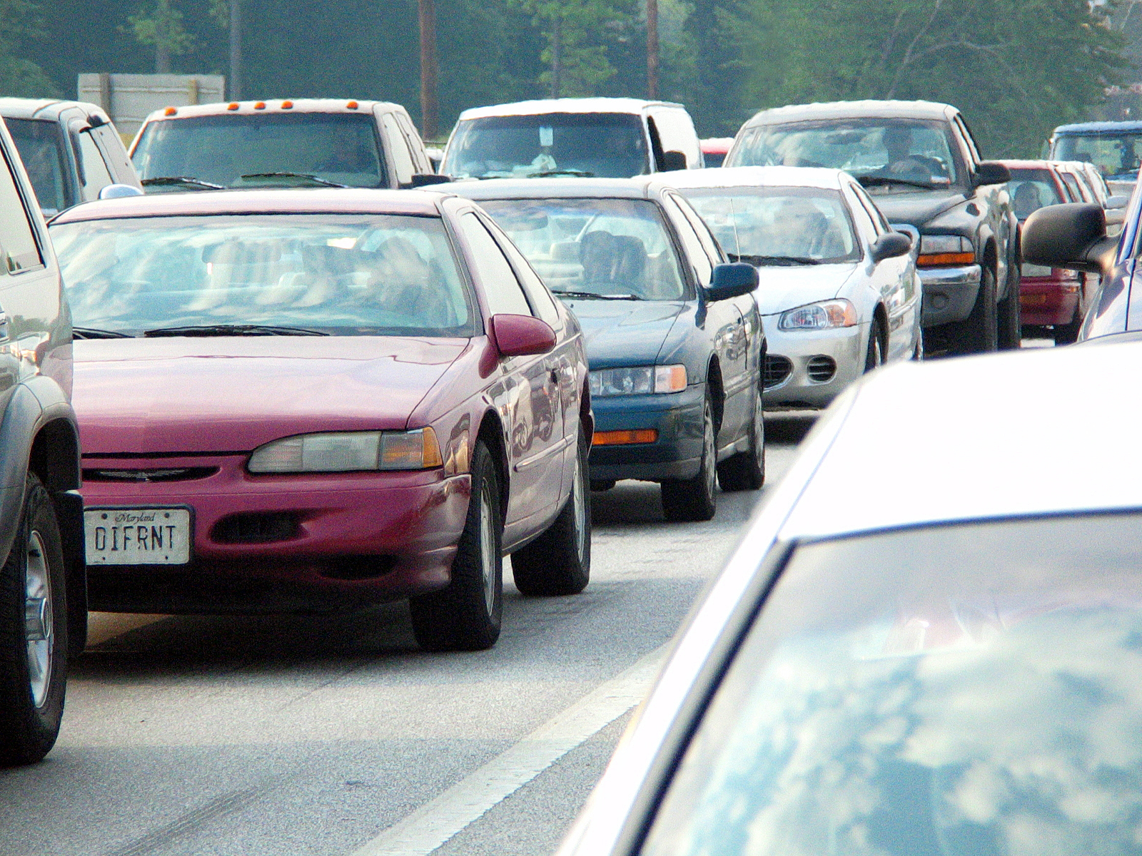 Traffic jam Source: U.S. Census Bureau Source: U.S. Census Bureau Public Information Office (301) 763-3030 Last Revised: July 07, 2003 at 10:19:32 AM Public domain government data.